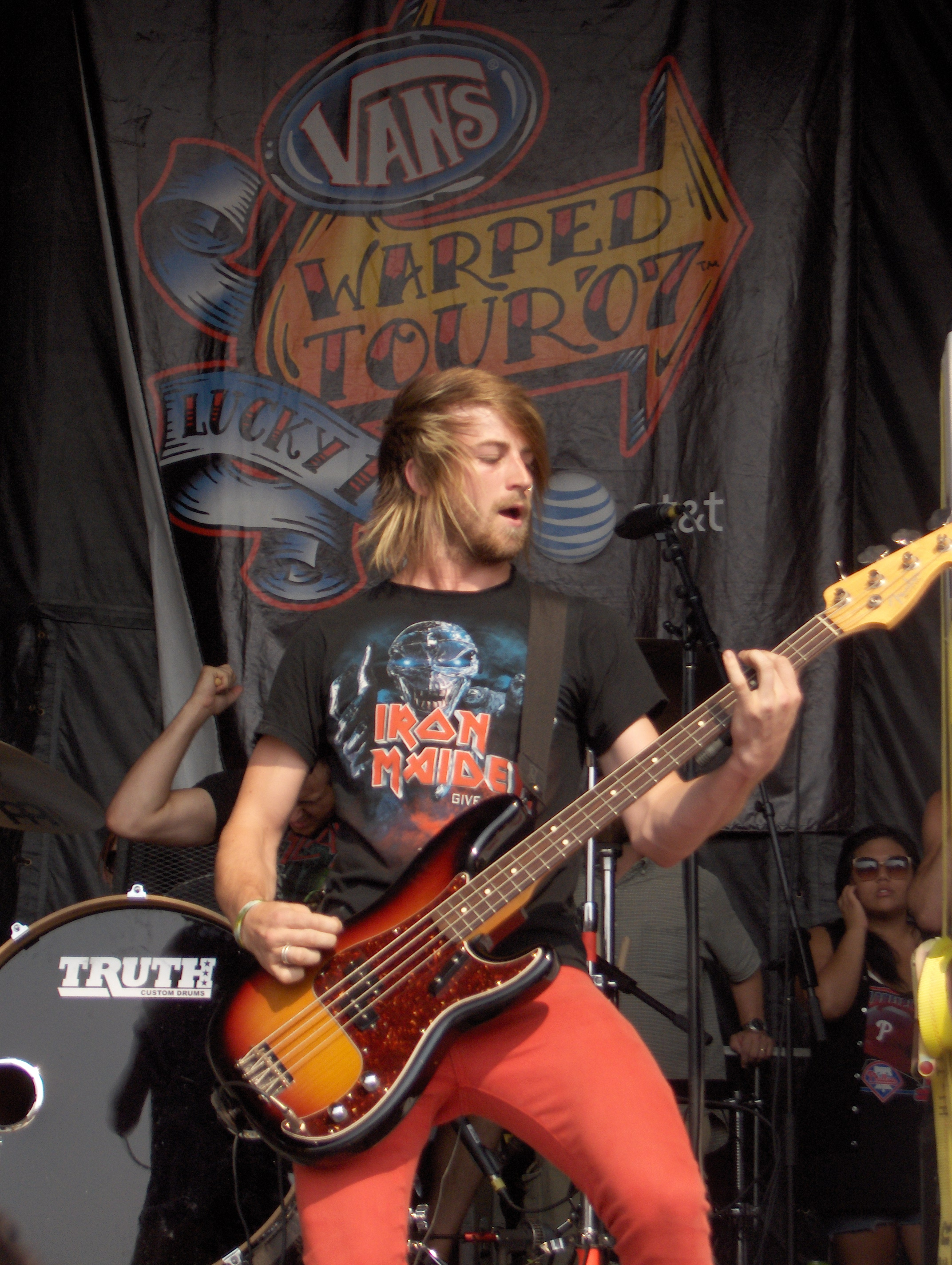 Jeremy Davis, bass guitar player for Paramore, playing at the Van's Warped Tour, 2007 in Tweeter Center at the Waterfront in Camden, NJ.